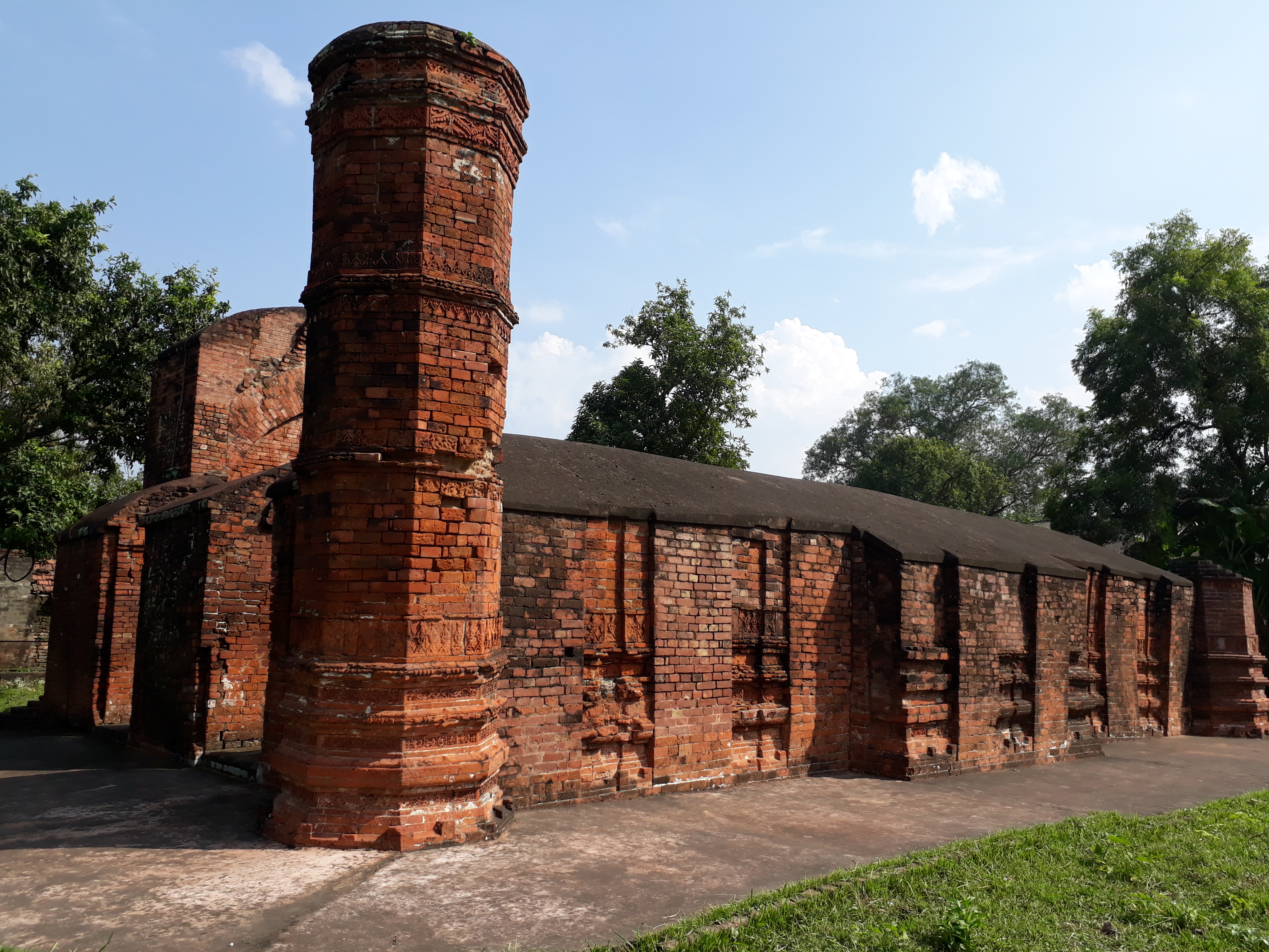 Sayed Jamaluddin Mosque in Saptagram, a heritage building in West Bengal